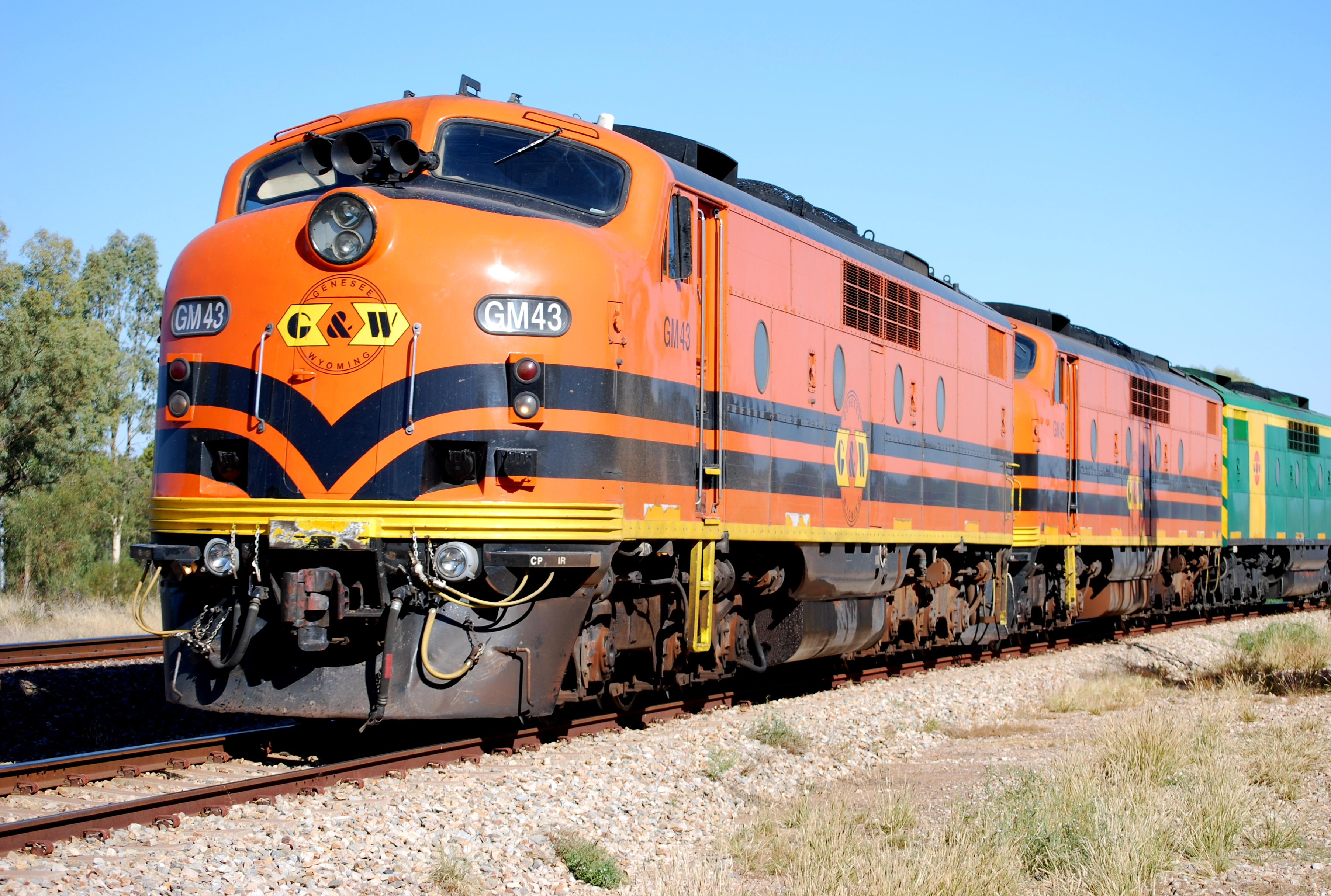 GM43 diesel train - moving barley, Clare valley, south australia